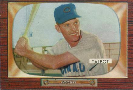 Major League Baseball player Bob Talbot in 1955.